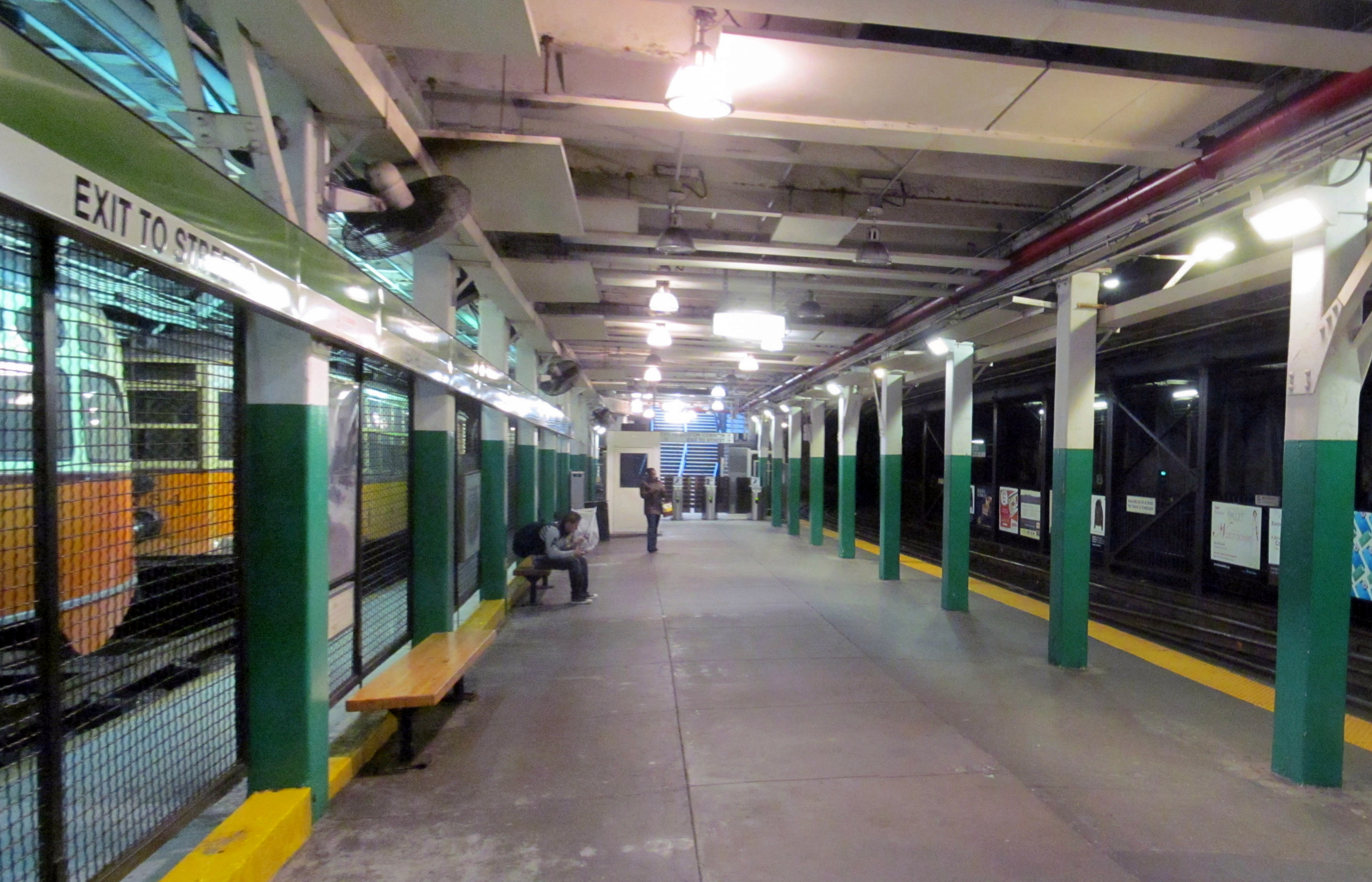 Panorama of the inbound platform at Boylston. The PCC car and Type 5 are on display at left.